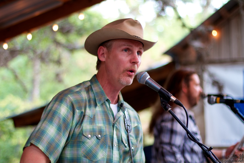 Max Stalling in concert at Luckenbach, Texas.